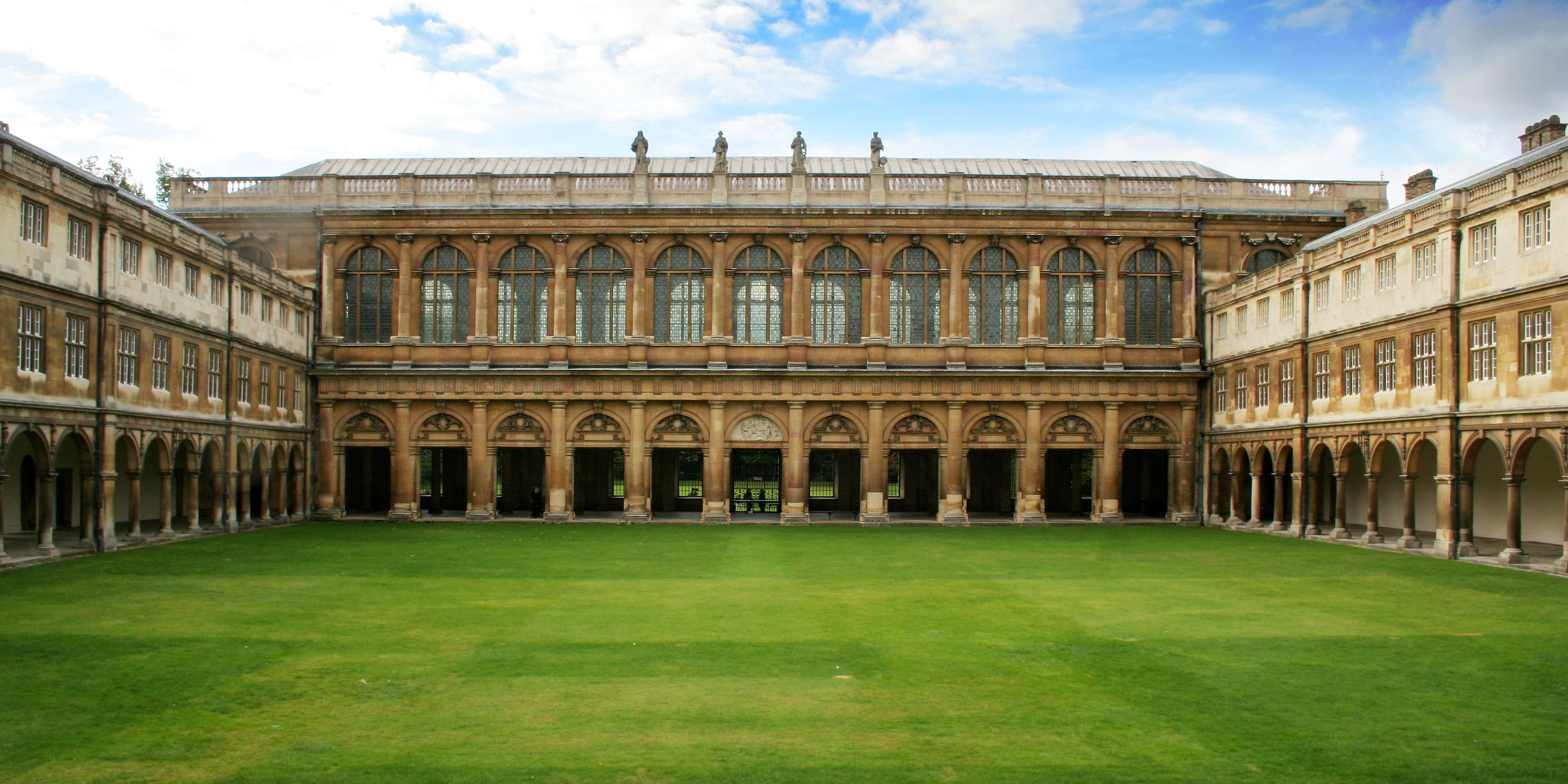 View of the Wren Library at Nevile's Court of Trinity College, Cambridge University.